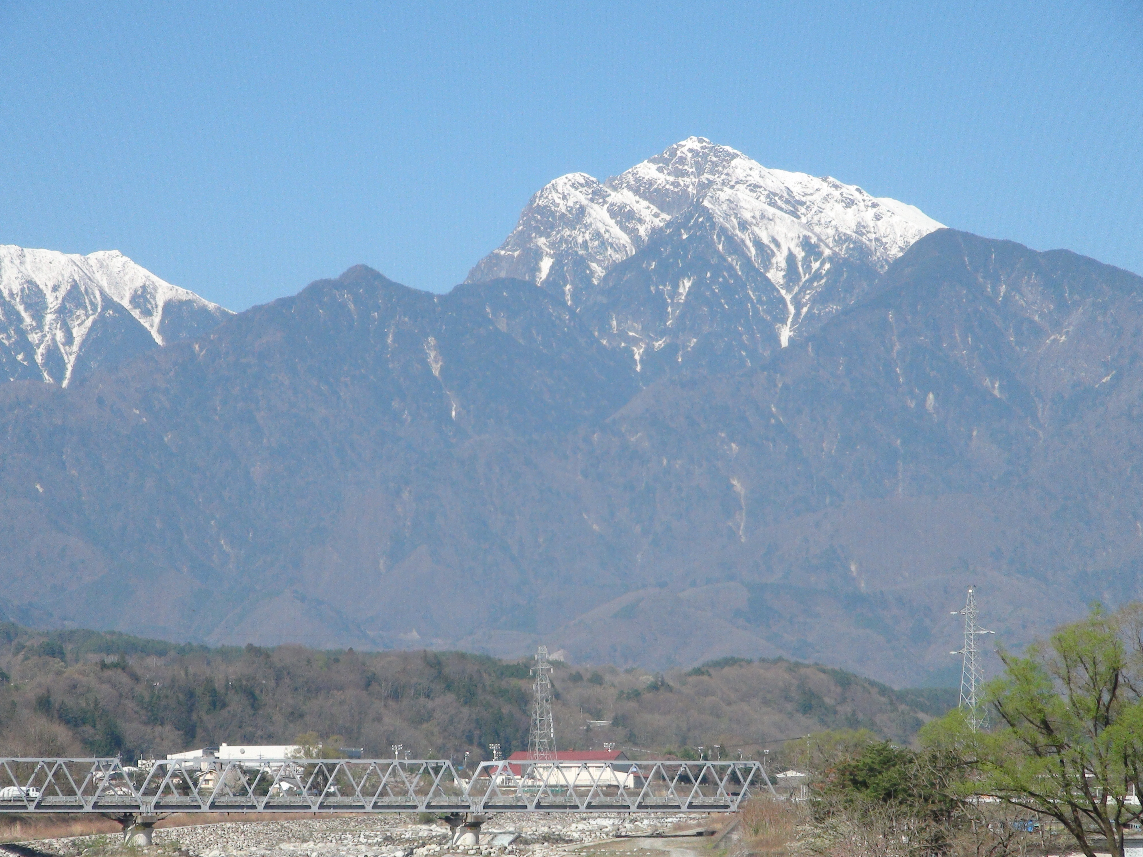 Mt Kaikomagatake looked up from the Kamanashigawa bridge